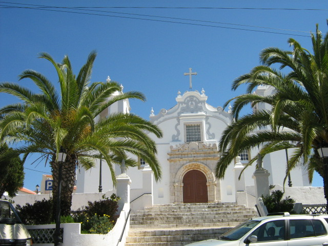 Igreja Matriz, Estômbar (Lagoa), Algarve, Portugal.